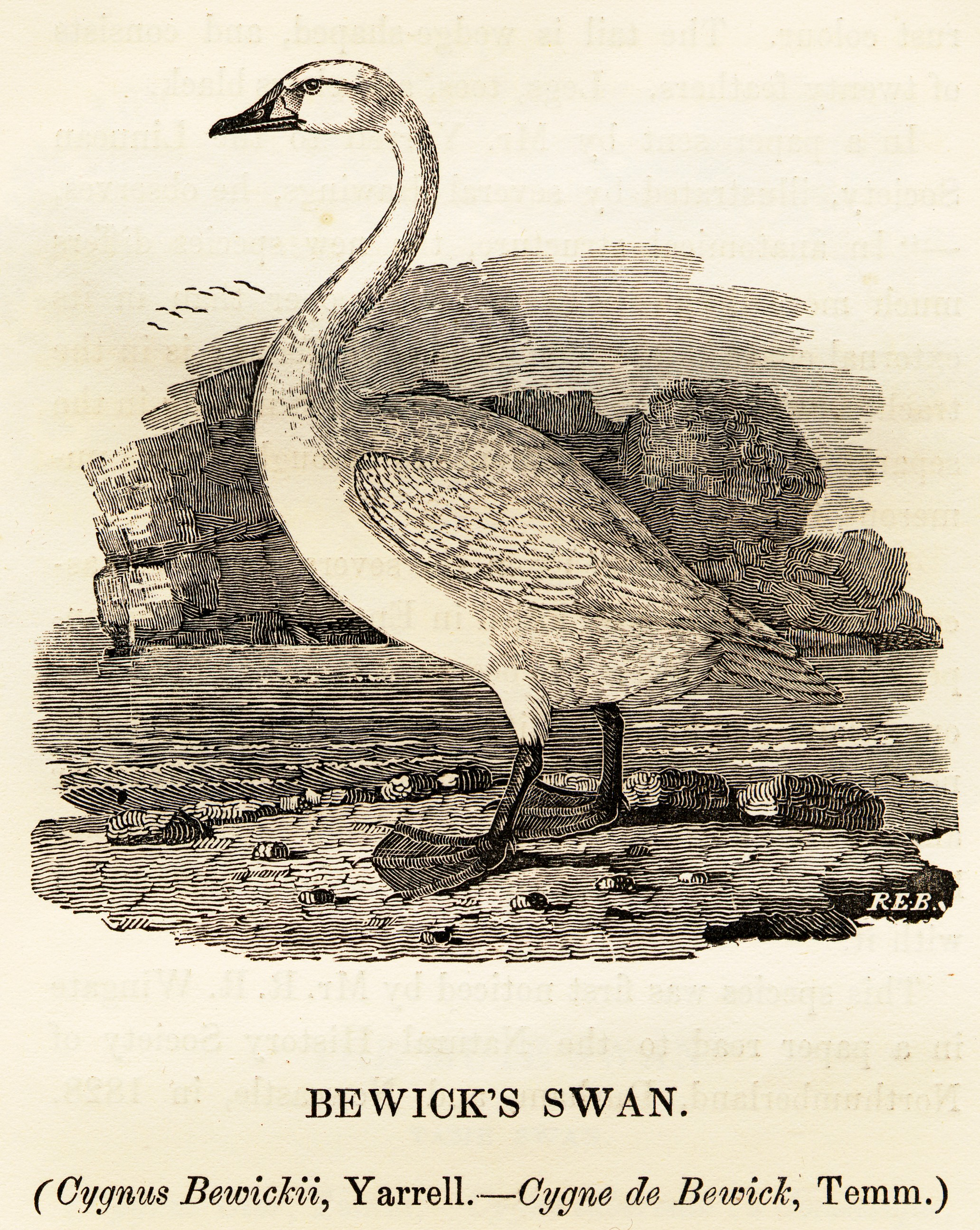 Woodcut by Robert Elliot Bewick of the swan named after his father by William Yarrell. The bird did not appear in the first edition of Thomas Bewick's A History of British Birds; it was named by William Yarrell after Thomas Bewick's death. This image is scanned from the 1847 edition, which was the last "live" edition of the book.